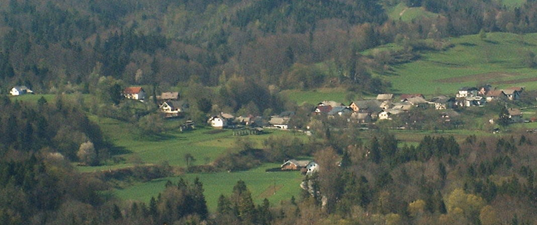 Sp. Stranje viewed from Kamnik